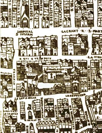 Olivier Truschet and Germain Hoyaux: Plan de Paris dit "Plan de Bâle" (approx. 1551/52), detail. Carnavalet Museum, Paris, France.